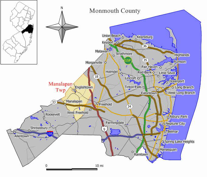 Source: Jim Irwin